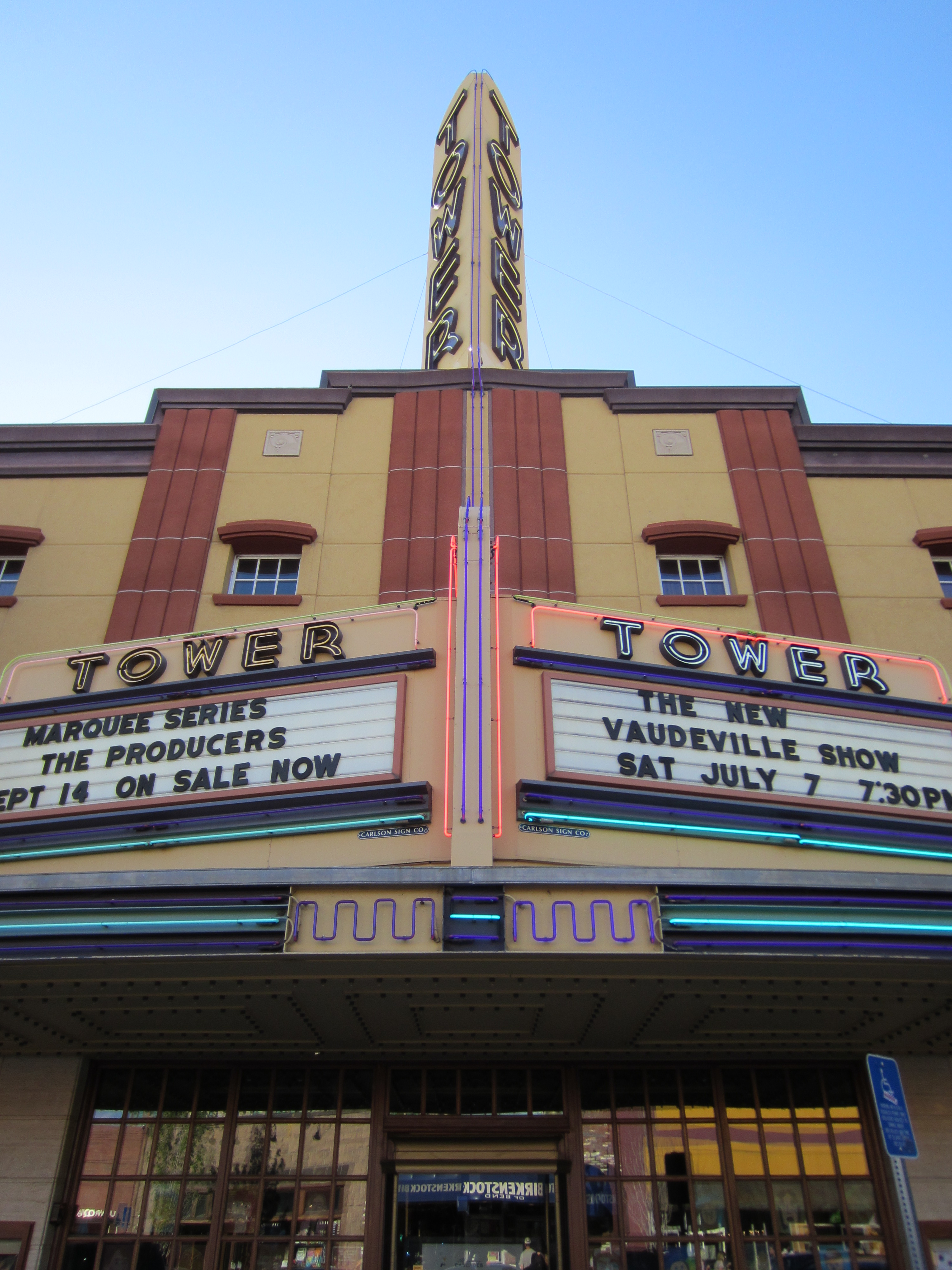 Tower Theatre in Bend, Oregon in 2012